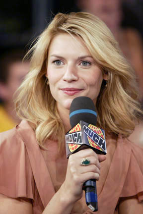 Claire Danes at MuchMusic, for the program MuchOnDemand, to promote the film Stardust.